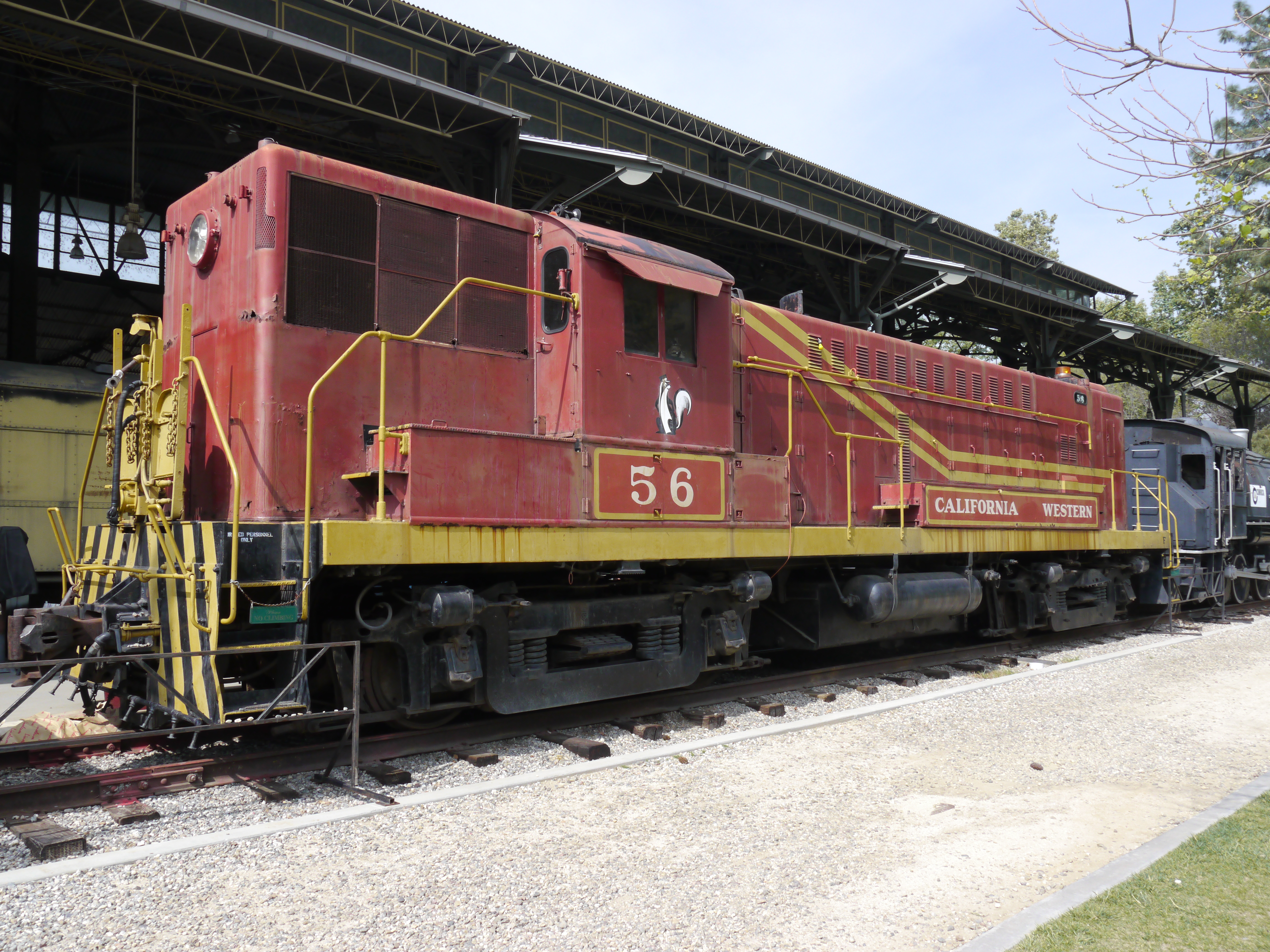 The last remaining Baldwin RS-12, at the Travel Town Museum.